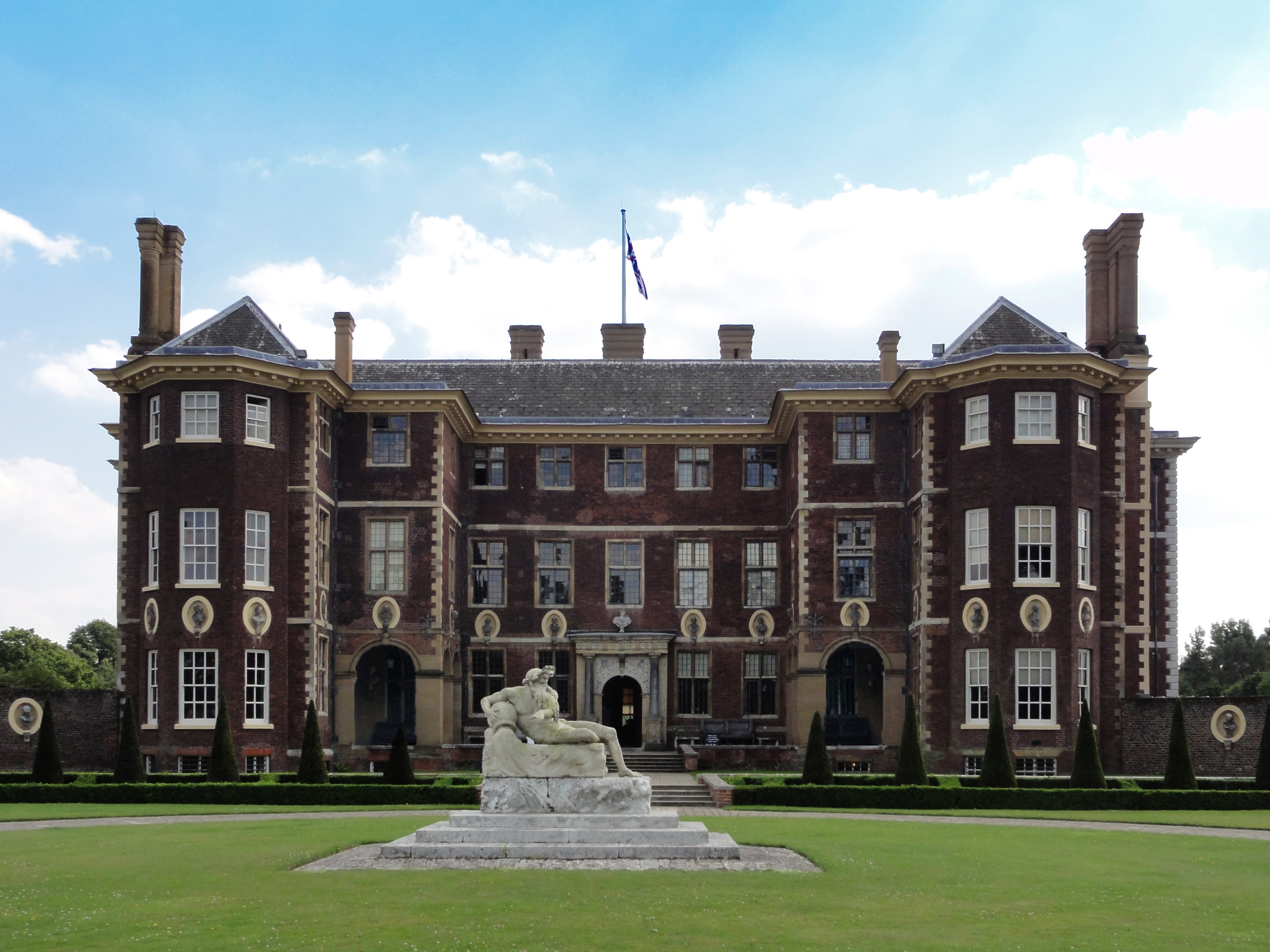 The contemporary art inflatables in the cloisters have edited out of the picture and replaced by detail in an earlier photograph.